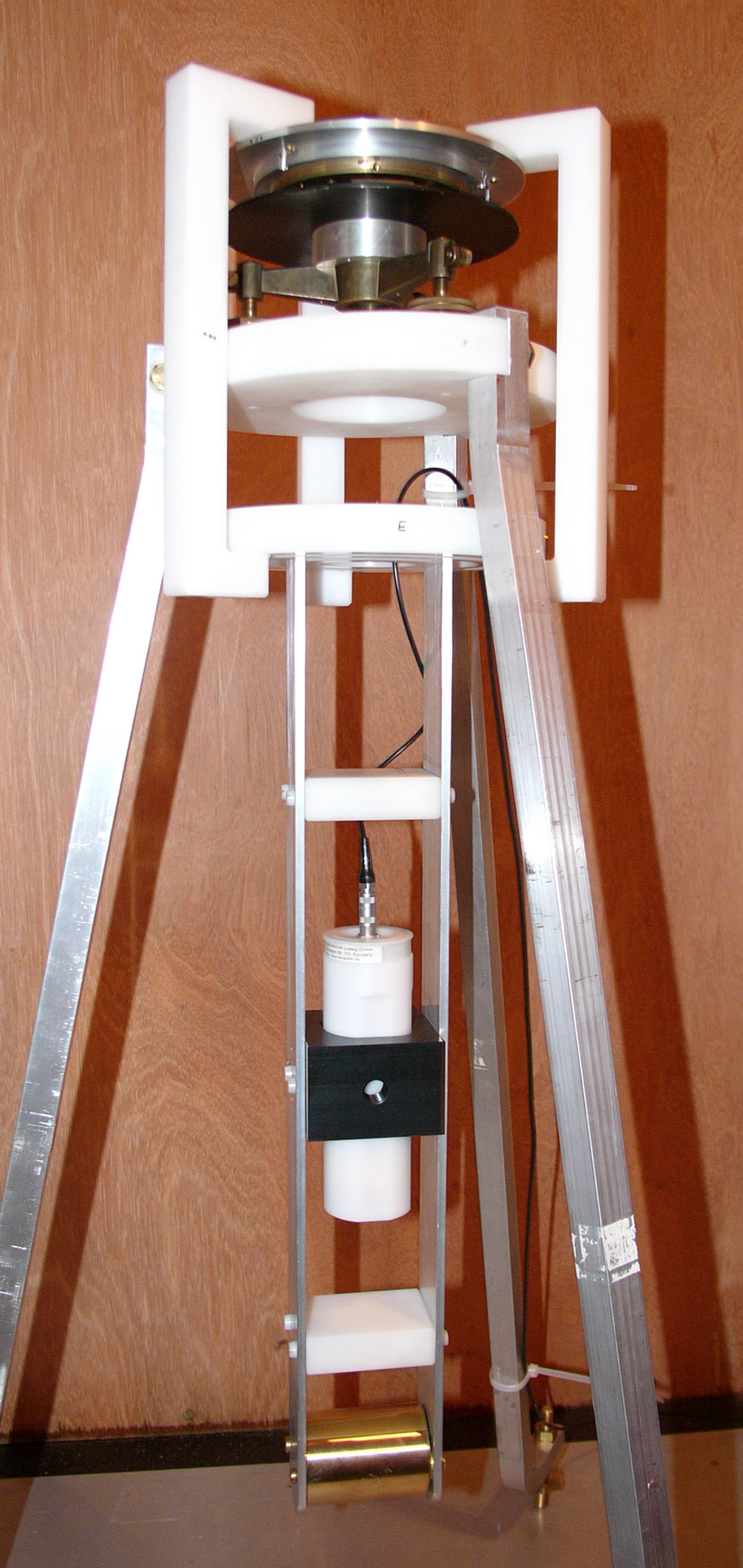 Magnetometer in the geophysical observatory, Neumayer Station, Antarctica